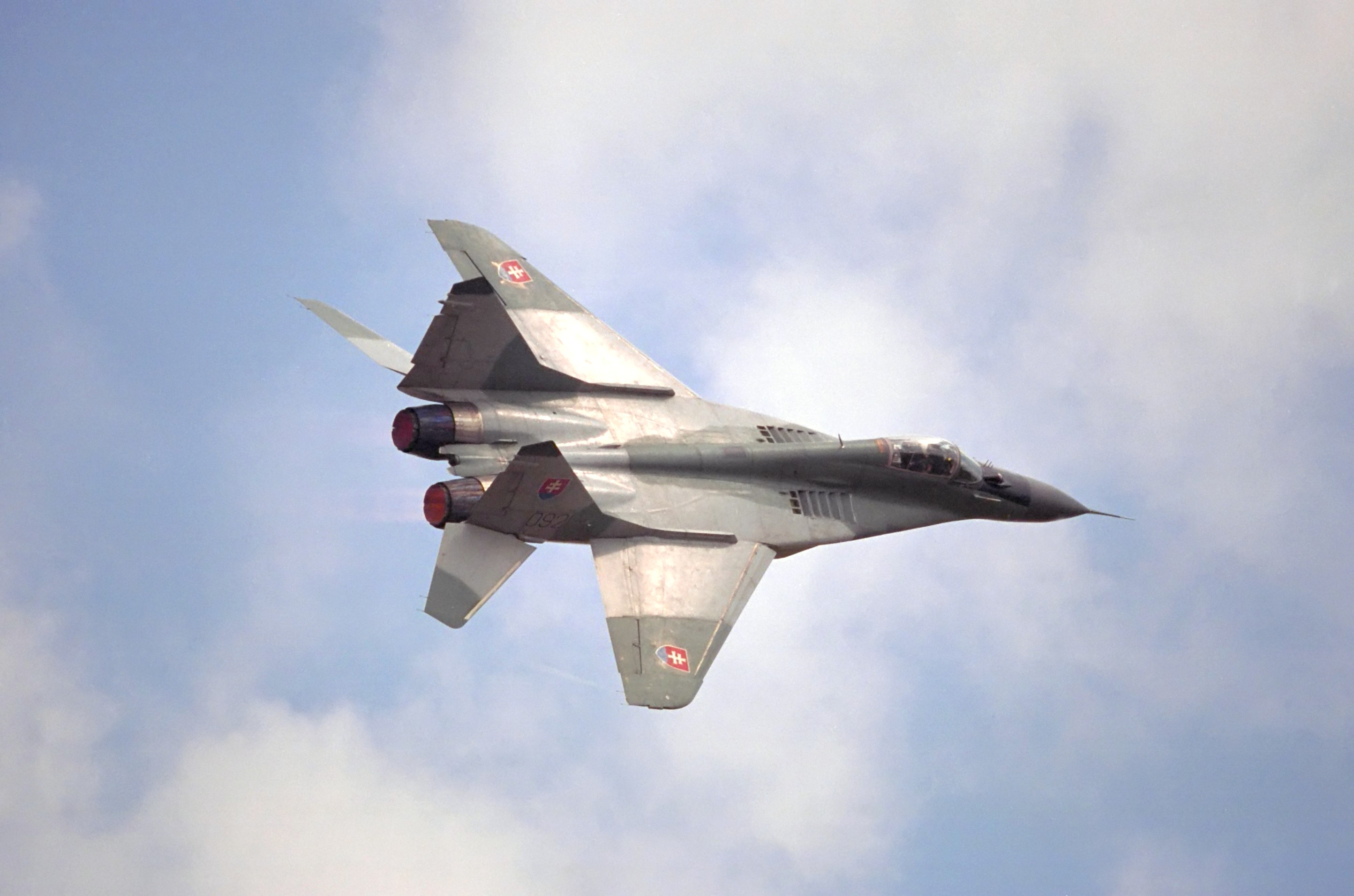 An aerial demonstration of a Slovakian Air Force's MiG-29A Fulcrum, piloted by Lt. Colonel Jozef Dunaj during Air Fete '96, the largest military sponsored air show in the world. Air Fete is held annually at Royal Air Force Mildenhall, United Kingdom and is attended by an estimated 300,000 people.